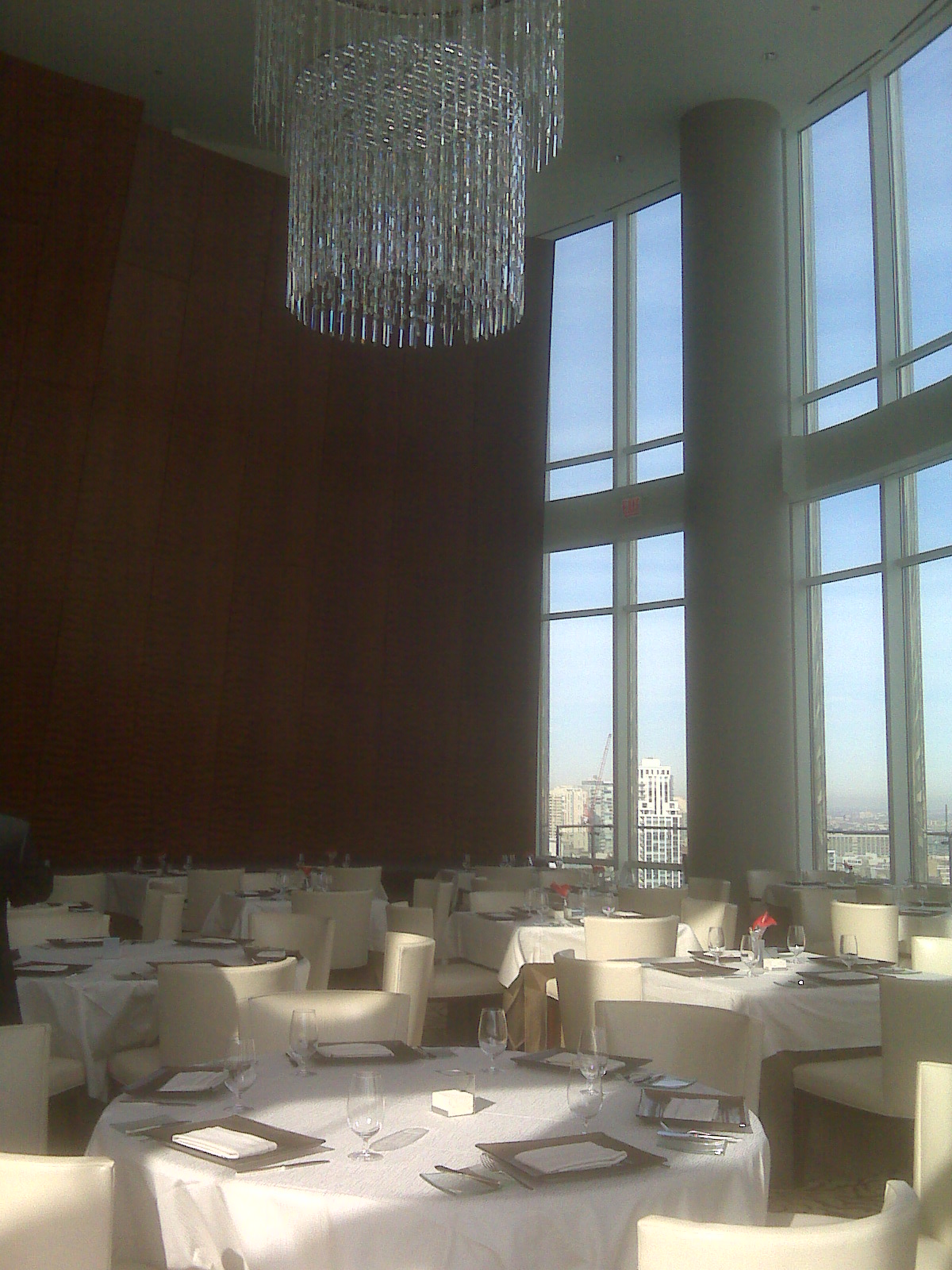 Sixteen, the restaurant at Trump International Hotel and Tower (Chicago)